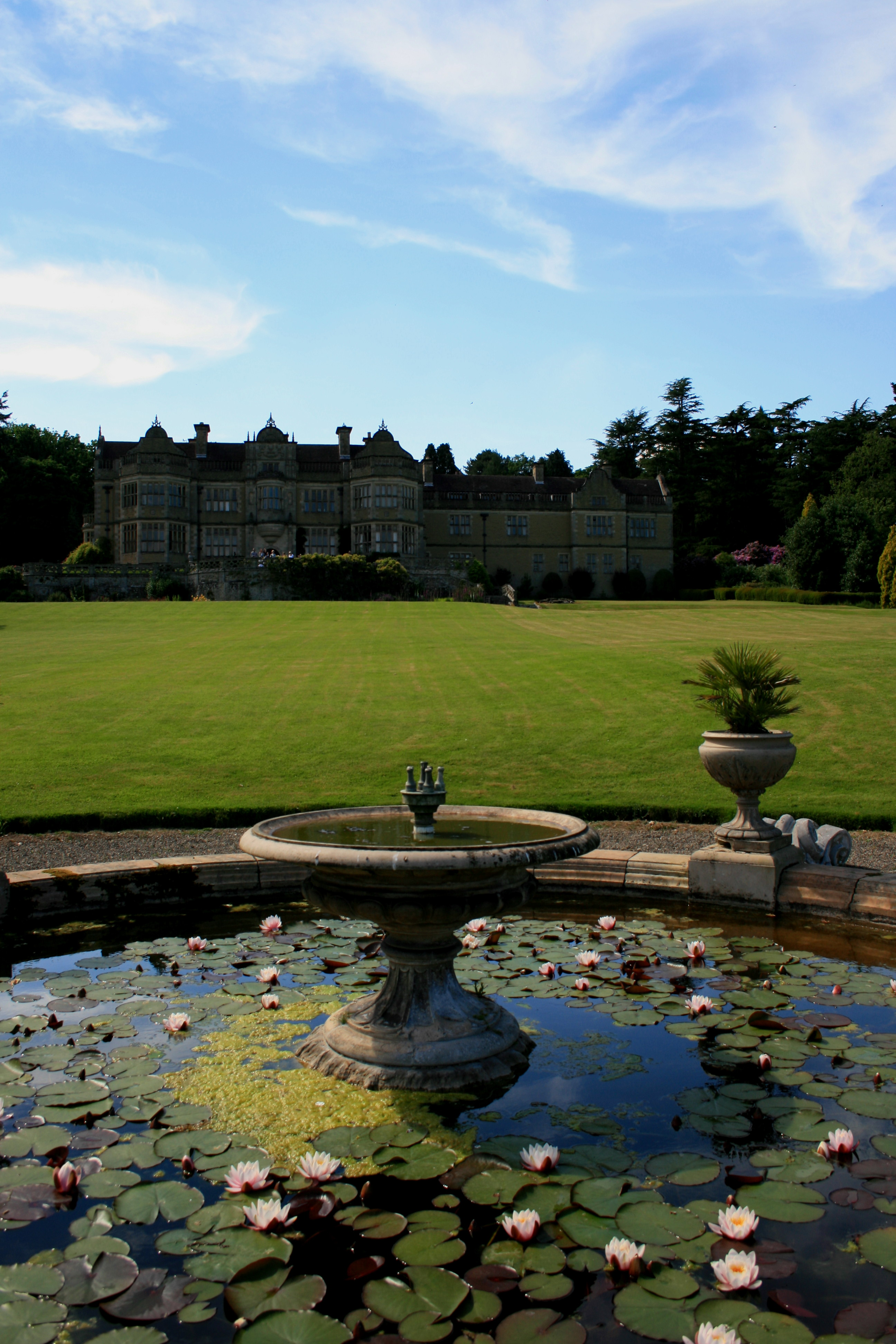 For the film Atonement a fibreglass pond was constructed over this one and a large fibreglass statue of Neptune was added.